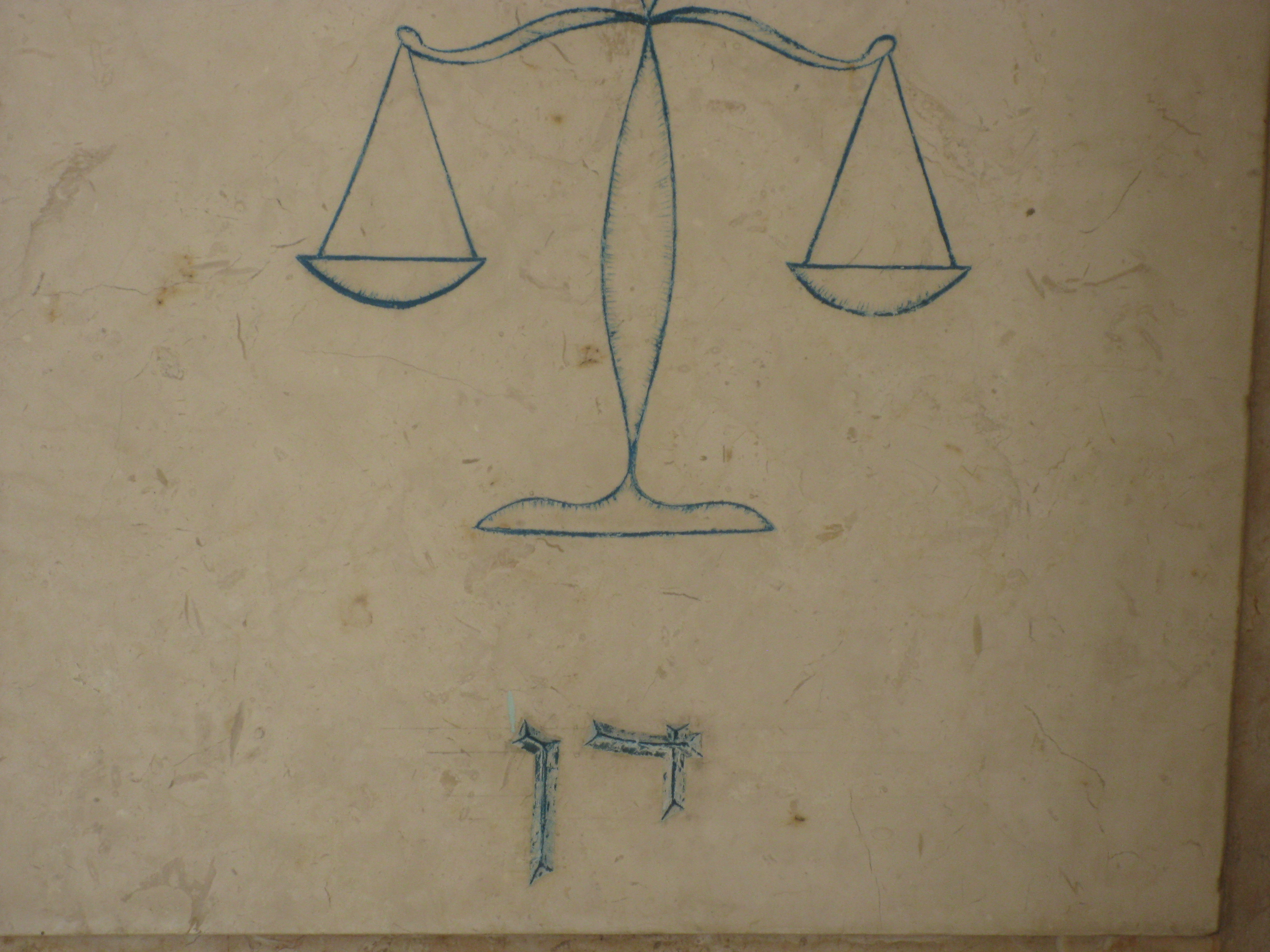 HaPoel HaMizrachi Centeral Synagogue, Bnei Brak. Emblem of tribe of Dan.